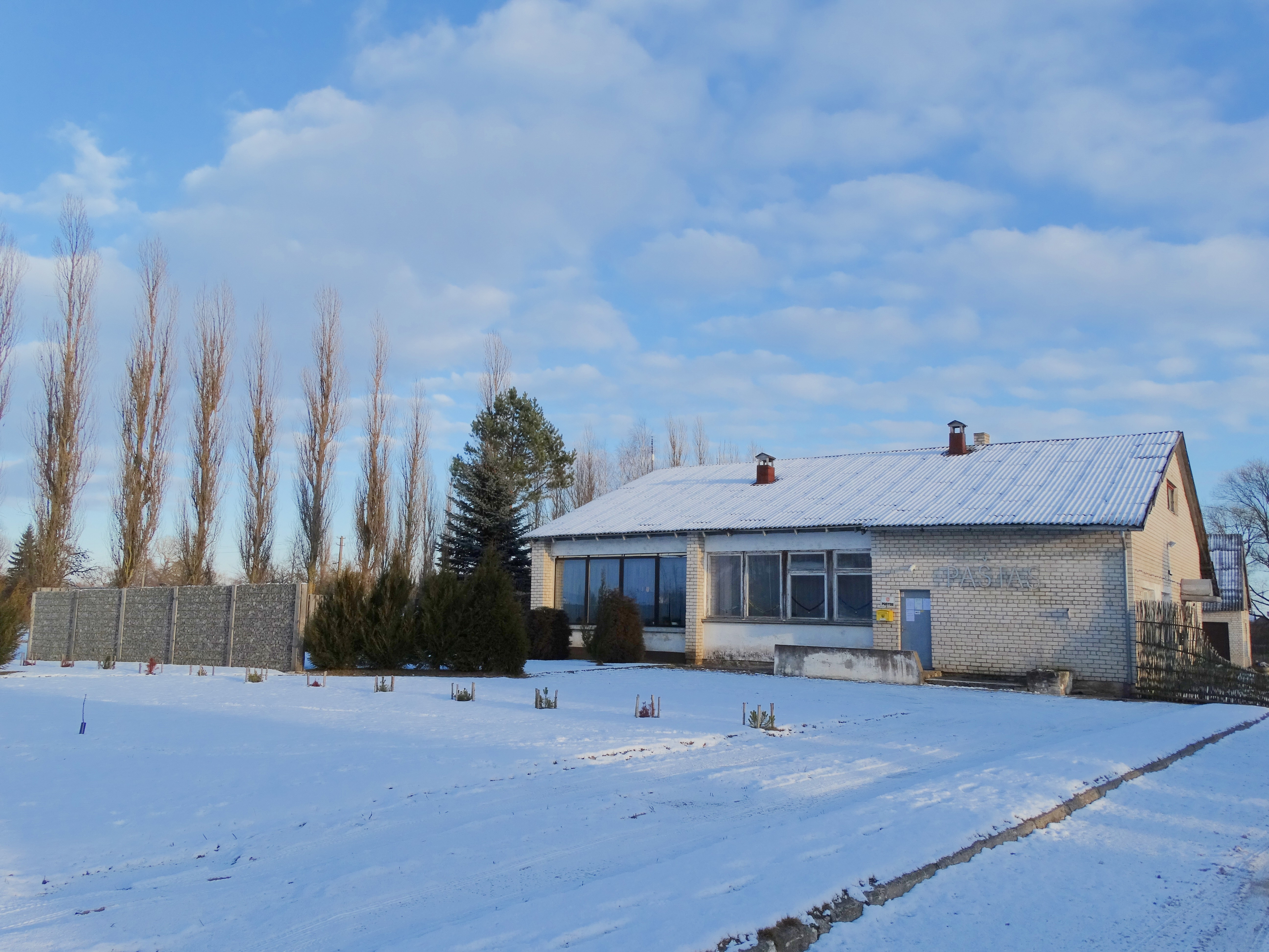 Post office, Klovainiai, Pakruojis District, Lithuania